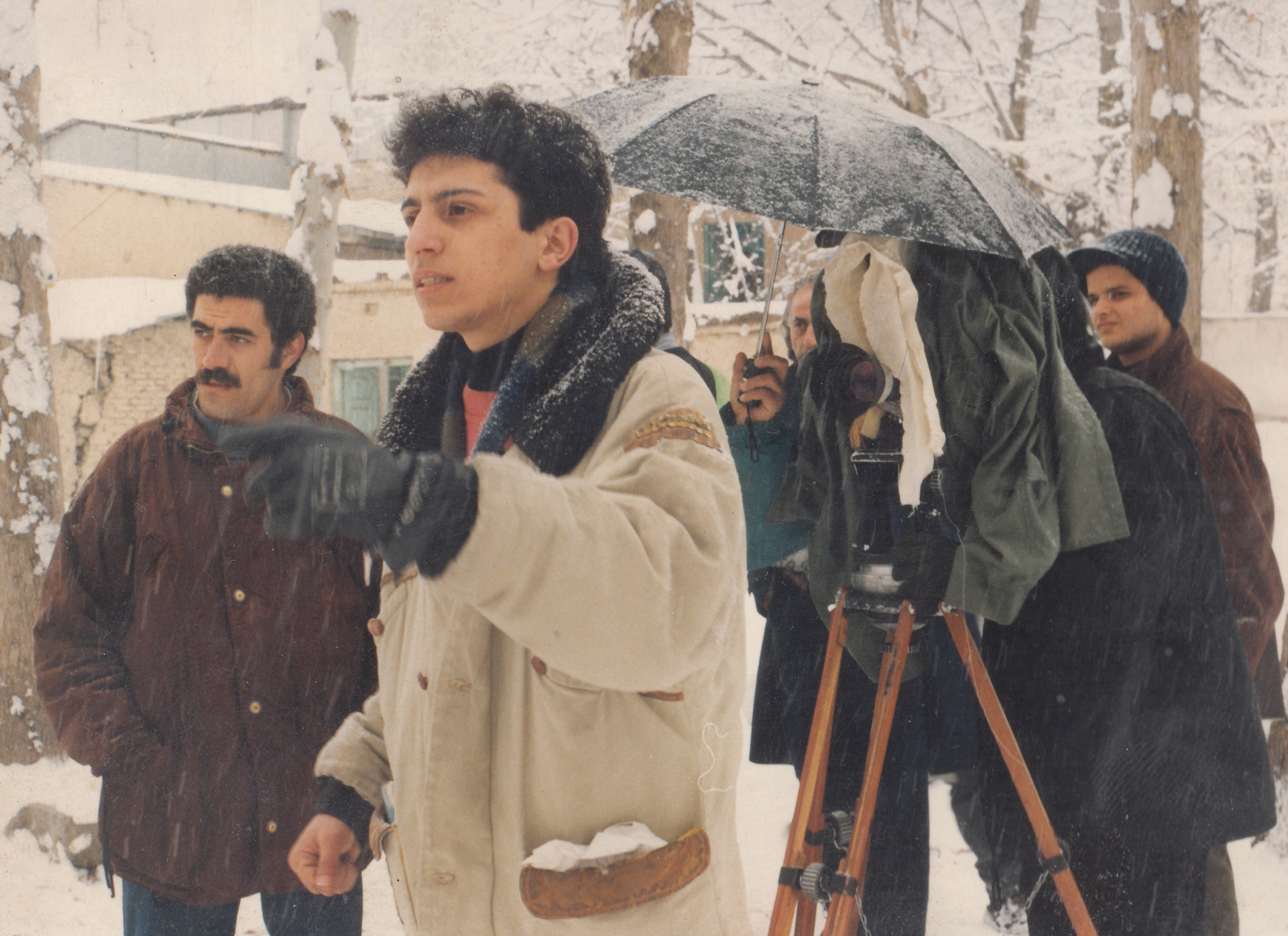 BAraghan